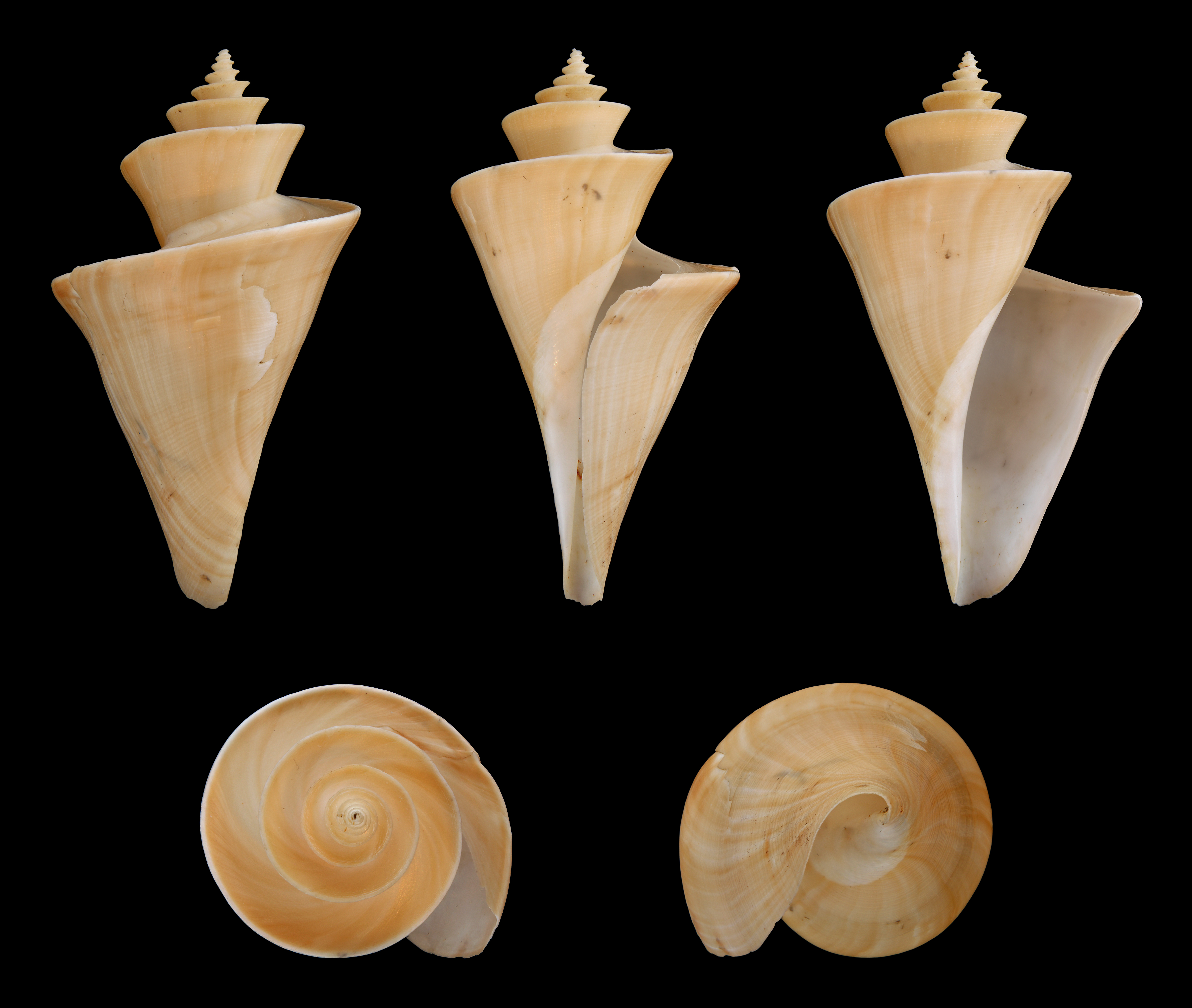 Japanese Wonder Shell ; Length 7,5 cm; Originating from Japan; Shell of own collection, therefore not geocoded. Dorsal, lateral (right side), ventral, back, and front view.